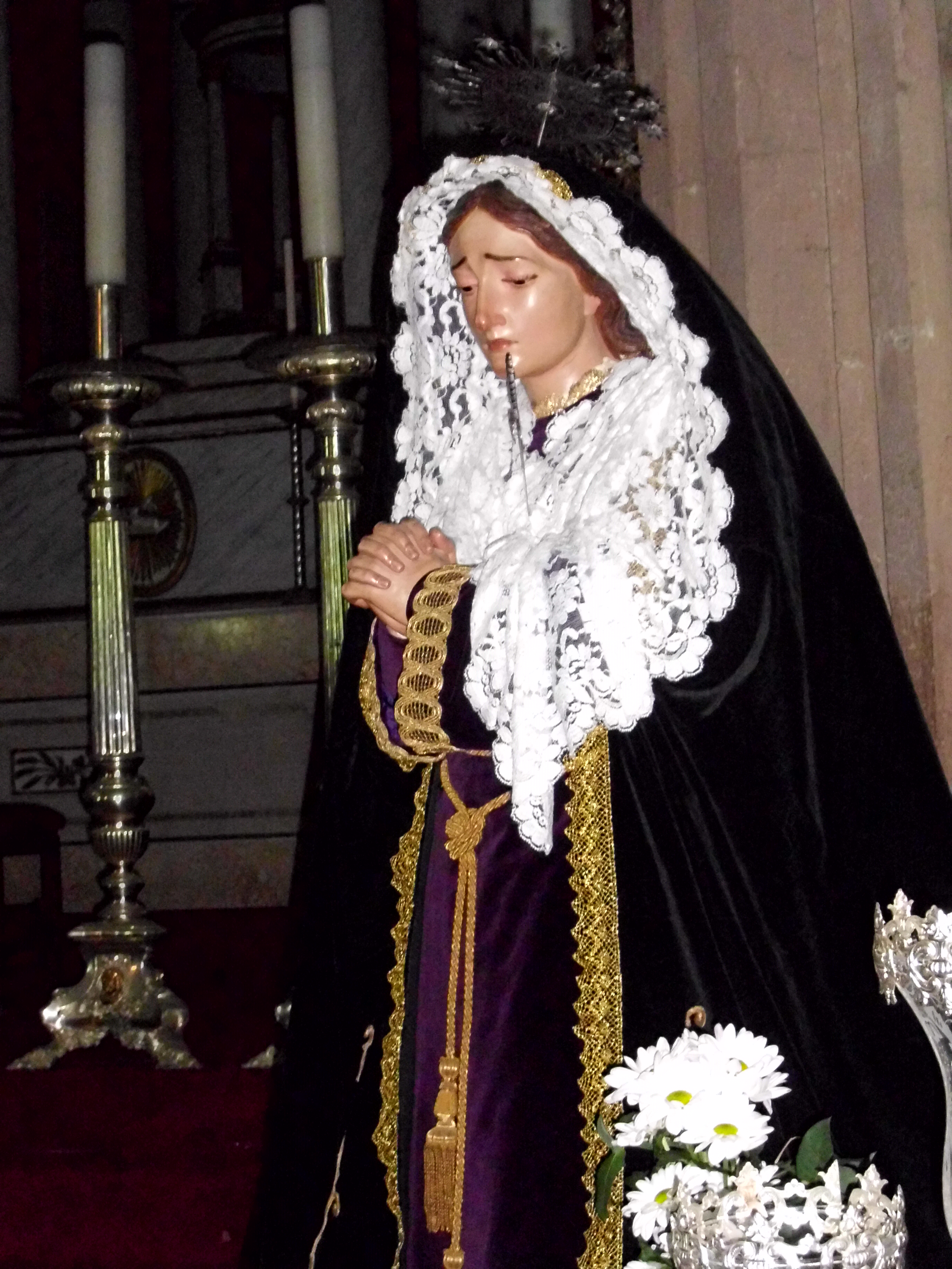 Nuestra Señora de los Dolores de Gáldar. Obra de don José Luján Pérez.